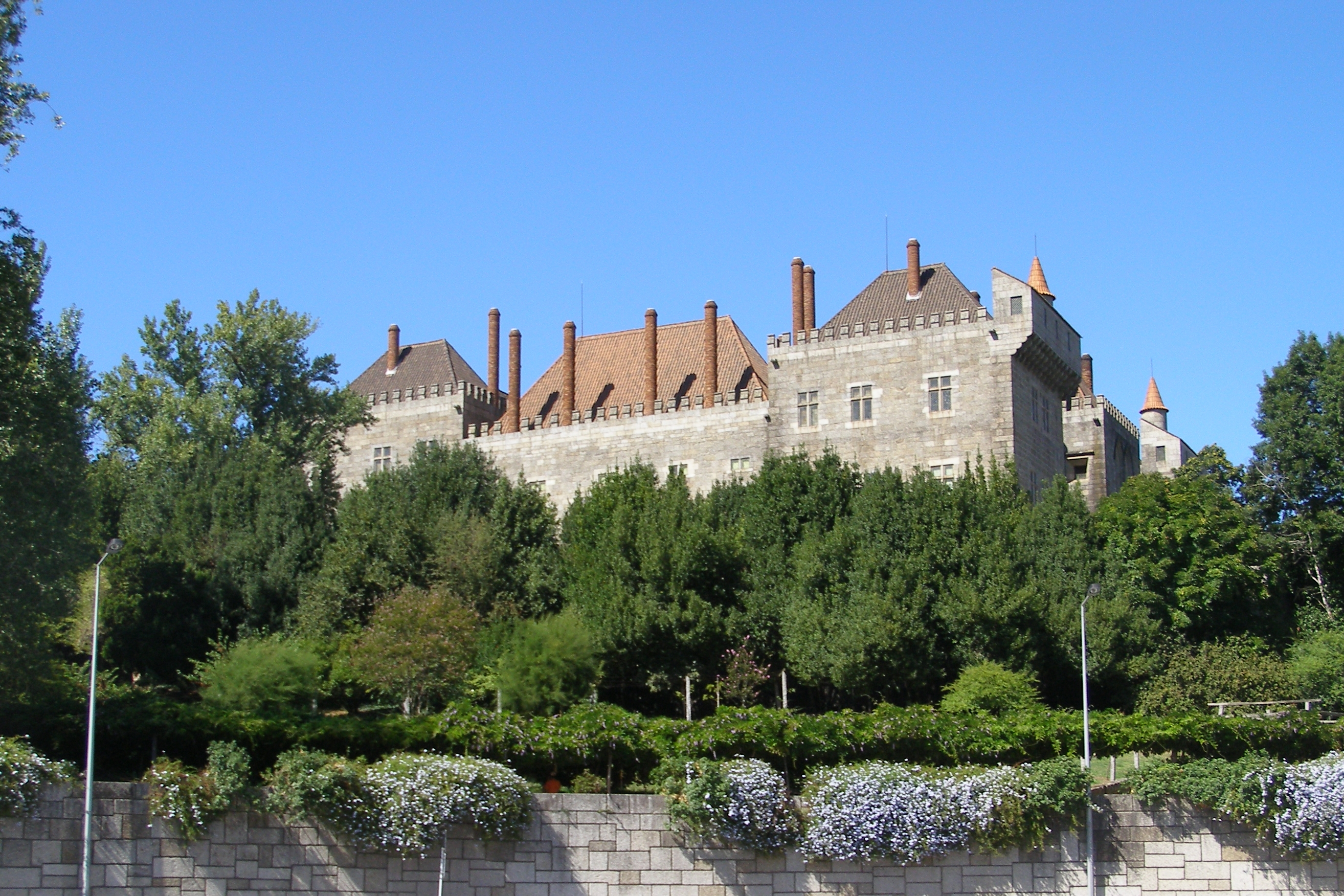 Hall of the Dukes of Bragança in Guimarães, Portugal, seen from the city.